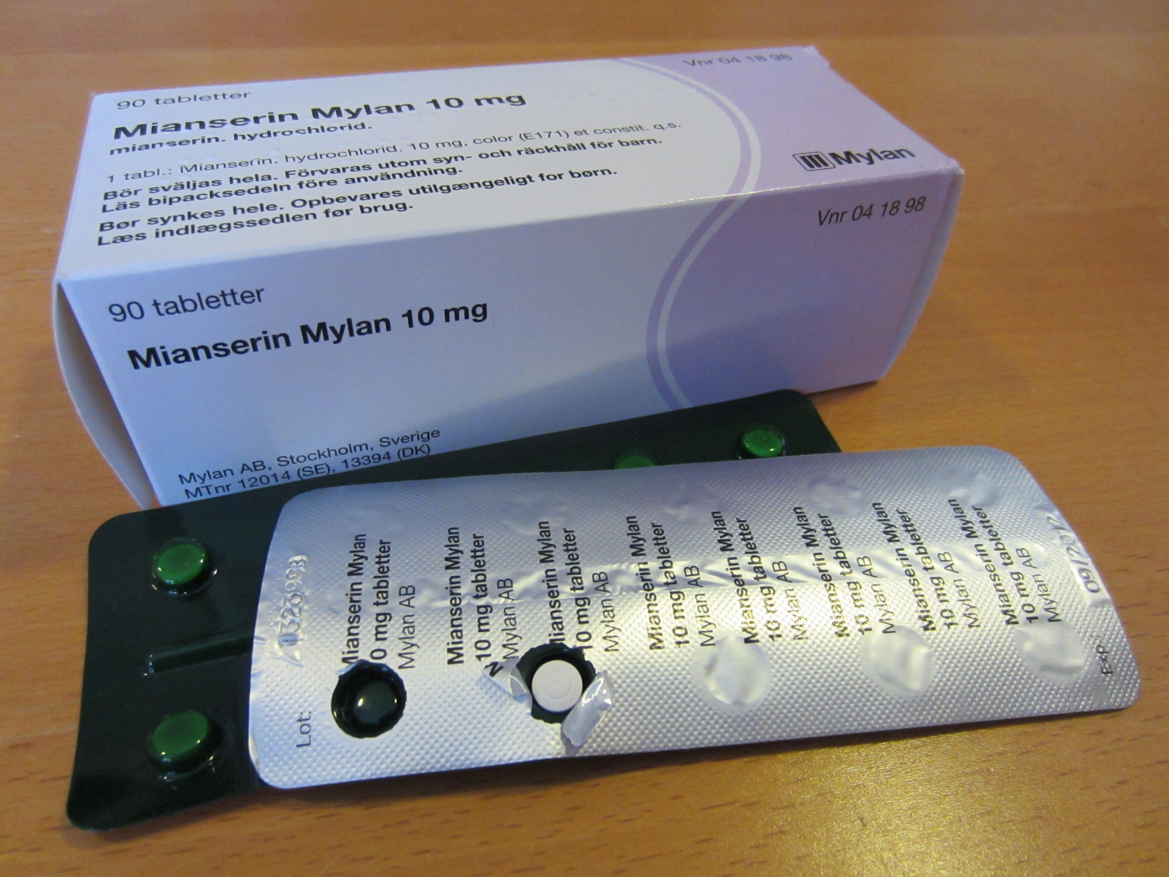 Medicine "Mianserin"